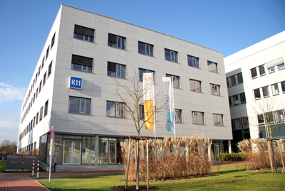 Hans Borst Zentrum, J11, Medizinische Hochschule Hannover